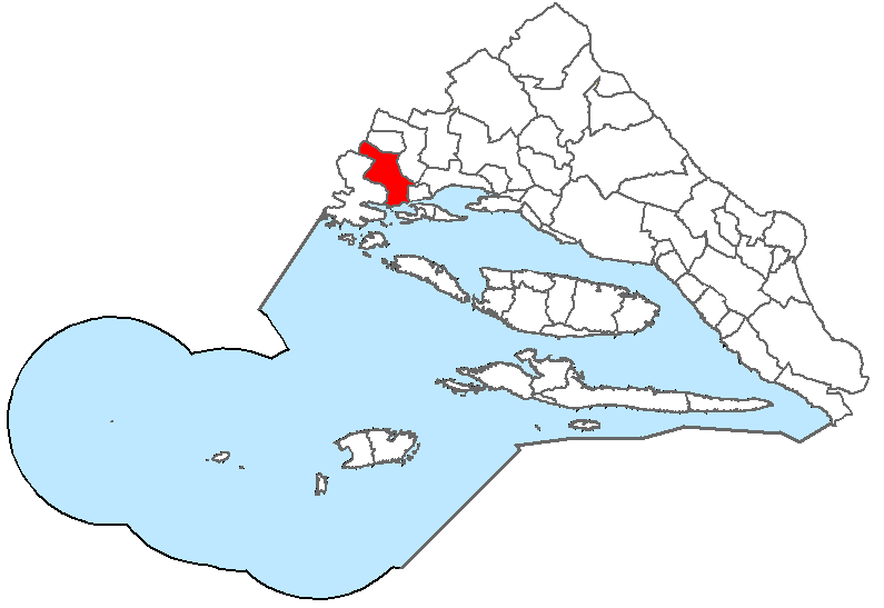 Position of municipality inside Split-Dalmatia County